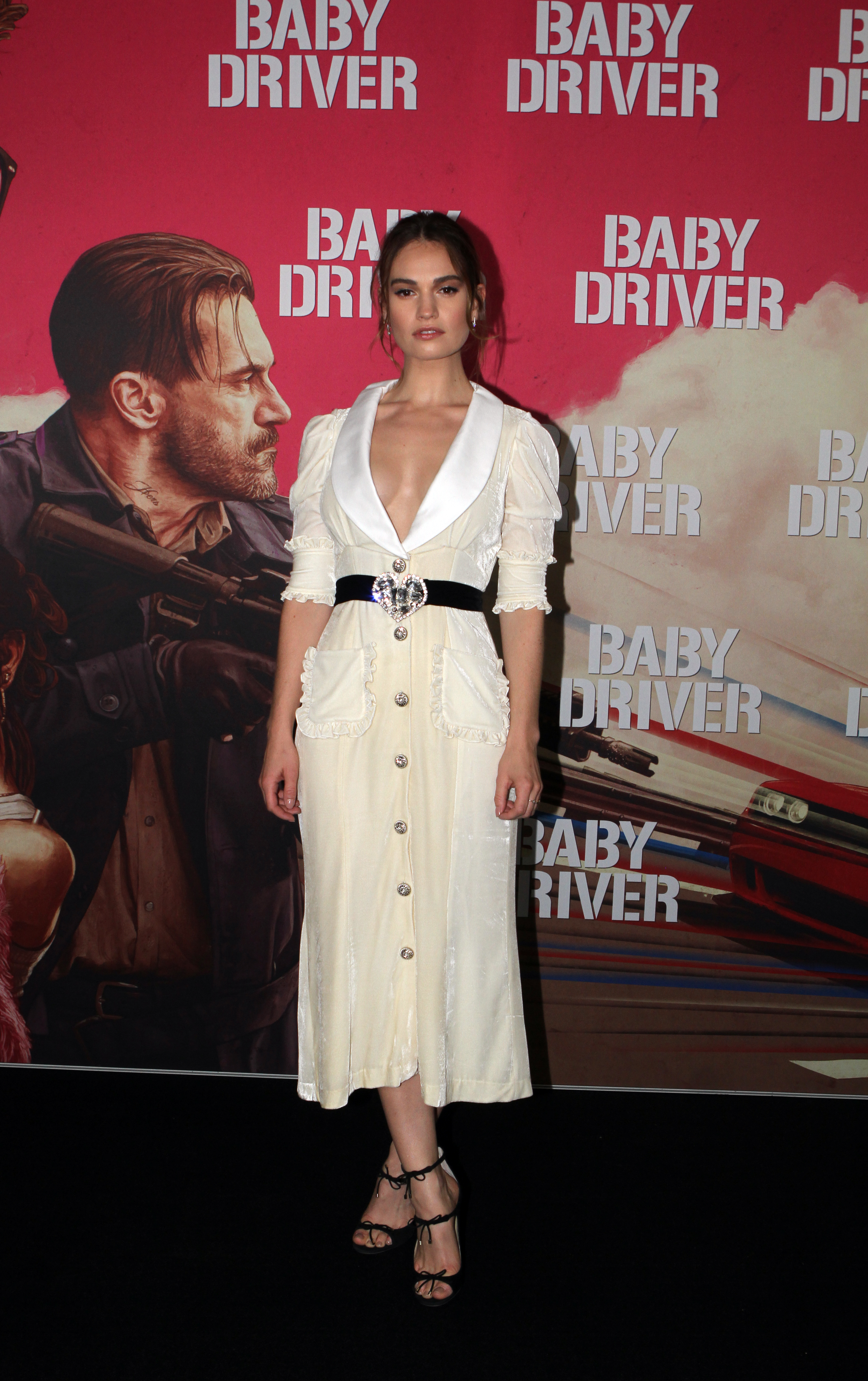 Baby Driver Australian Premiere - Arrivals SYDNEY, AUSTRALIA - JULY 12: Ansel Elgort, Edgar Wright and Lily James arrive ahead of the Baby Driver Australian Premiere at Event Cinemas George Street on July 12, 2017 in Sydney, Australia. Photography Eva Rinaldi